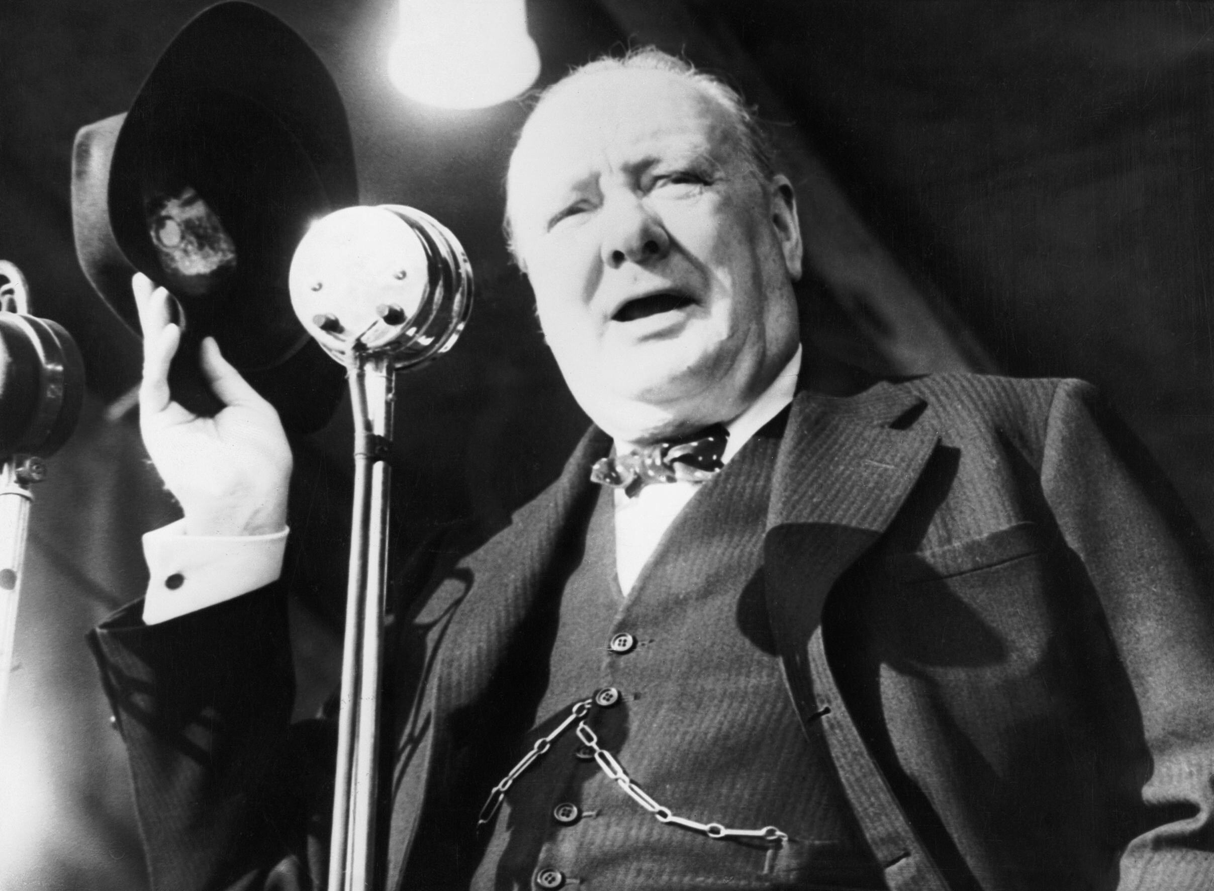 British Political Personalities 1936-1945 The 1945 General Election: Winston Churchill giving his final address, during the election campaign, at Walthamstow Stadium, East London.